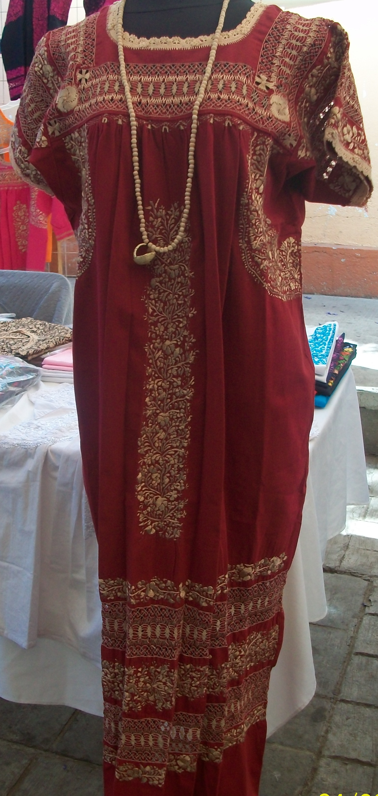 Camisa Bordada